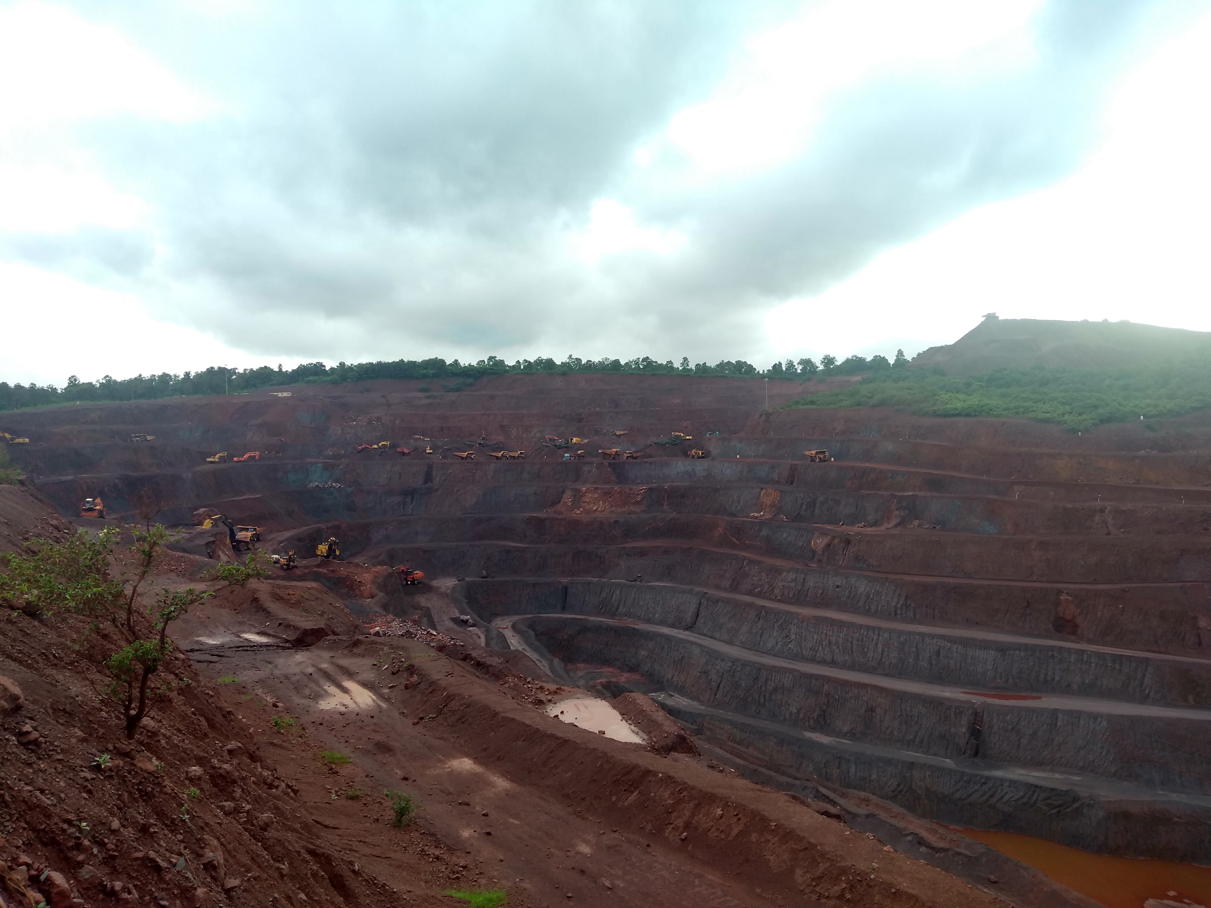 One of the iron mines in keonjhar district